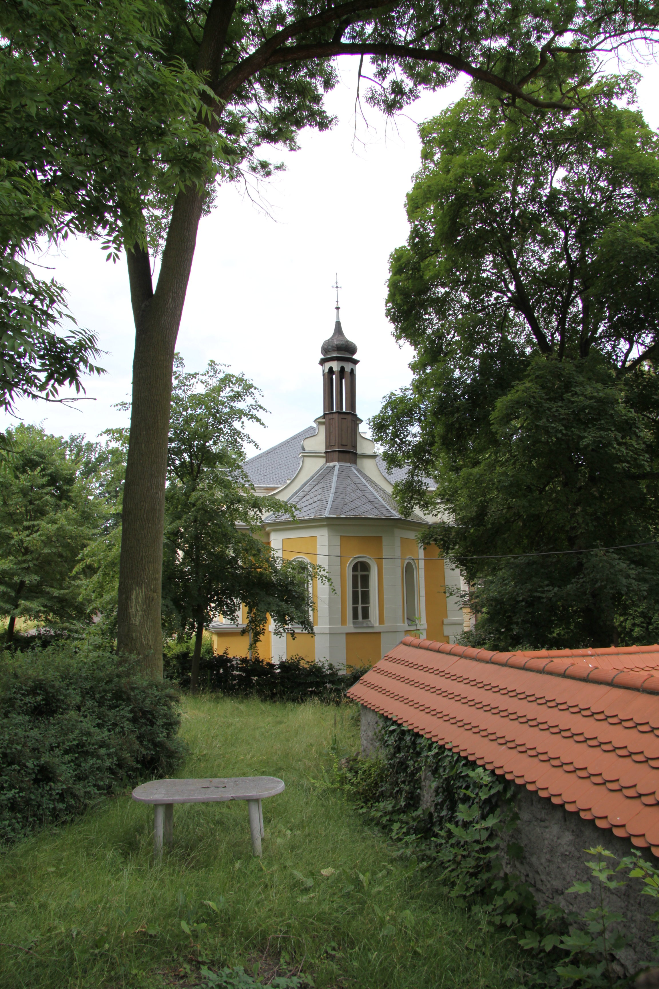 Hluboš village in Příbram District, Czech Republic. Chatau Hluboš